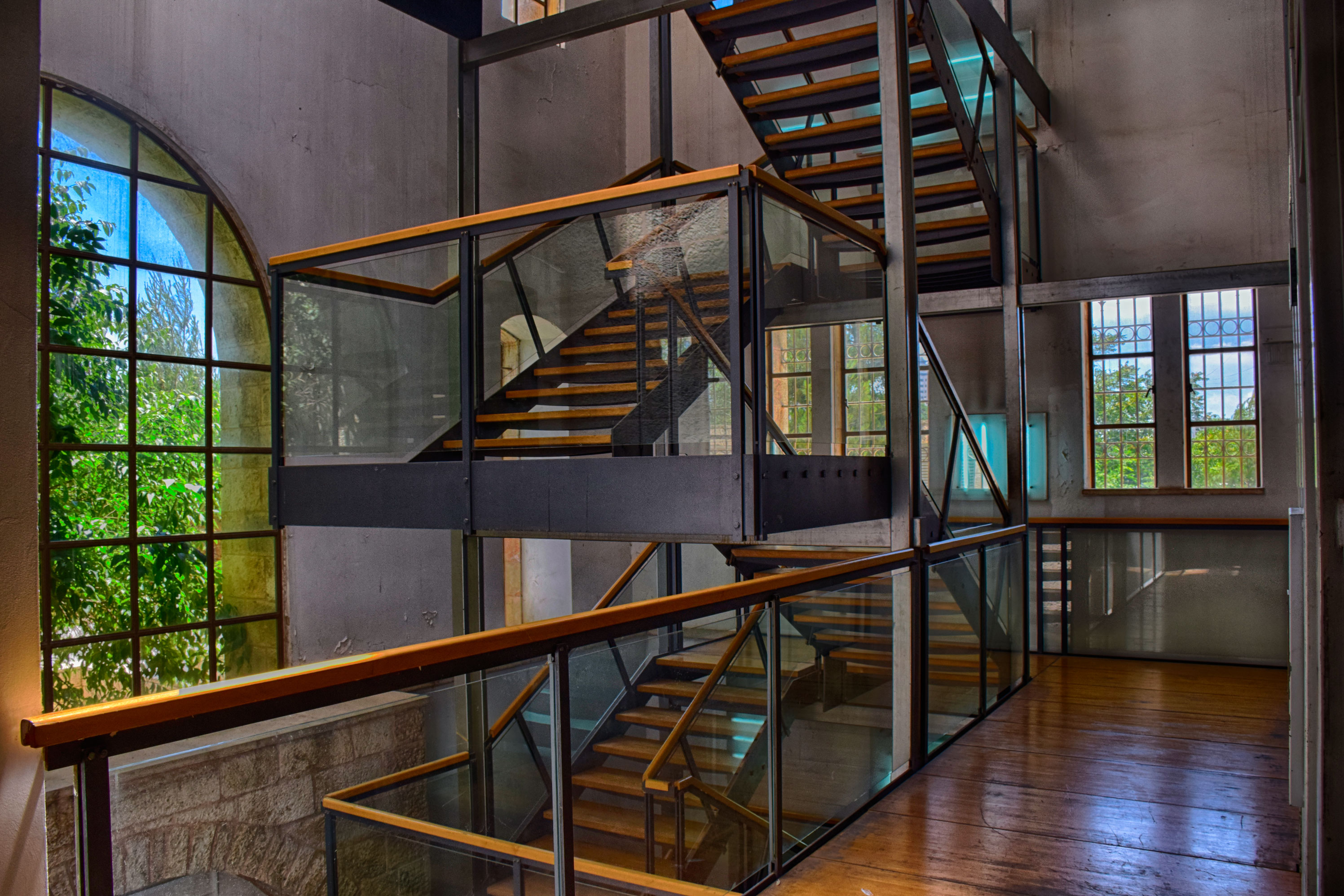 Israel Broadcasting service at Shaarei Tsedek Stairway